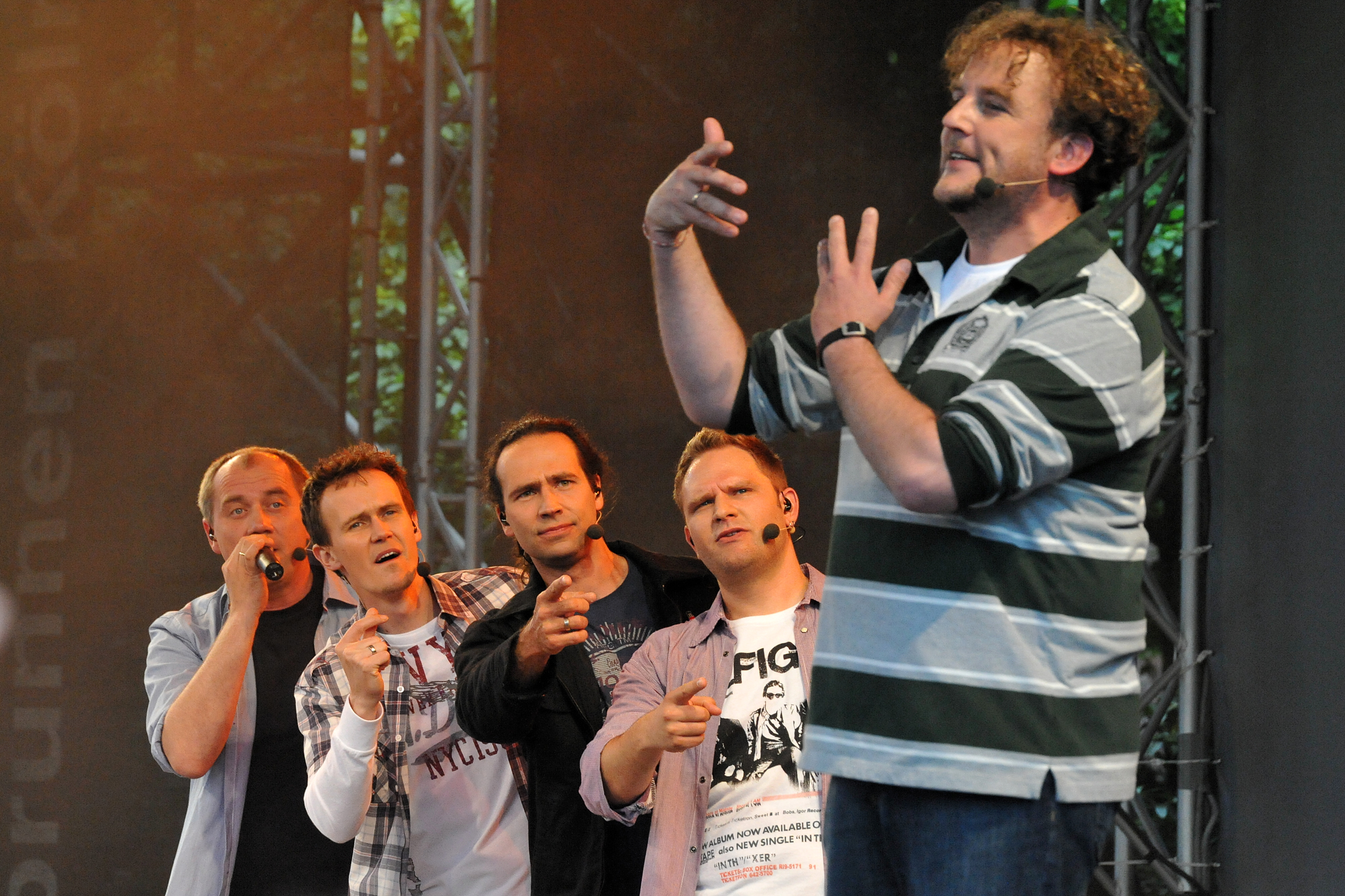 The german acapella group “Wise Guys” during the "Tanzbrunnen 2009" open-air concert performing their song “Relativ”. From left to right: Ferenc Husta, Marc Sahr (“Sari”), Edzard Hüneke (“Eddi”), Nils Olfert and Daniel Dickopf (“Dän”).